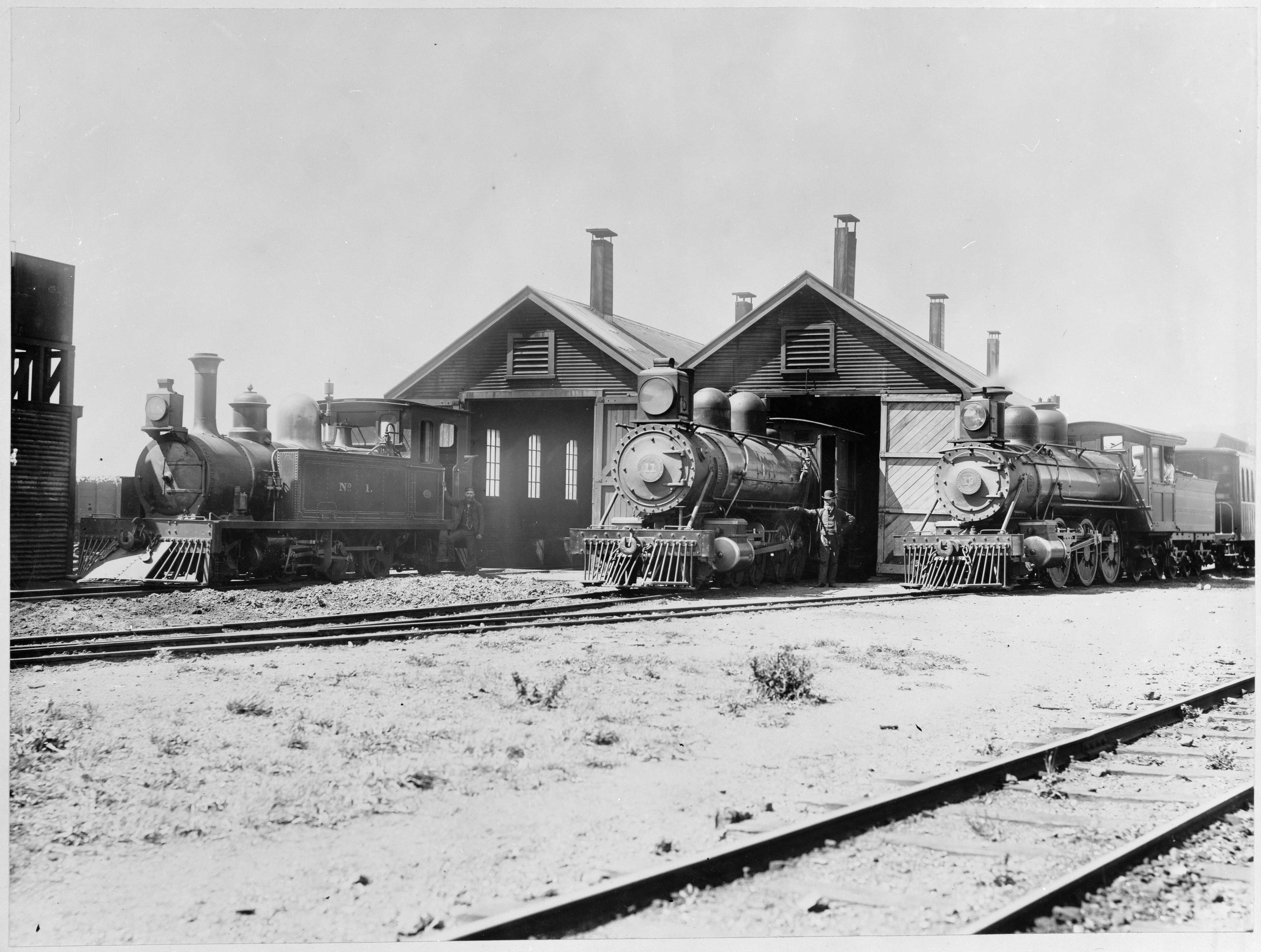 Three Wellington and Manawatu Railway Co. locomotives at unidentified railway yards. Nos 1 (later Wh 447), 10 (later N 454), and 11 (later Ob 455). Photograph taken while the locomotives were still owned by the WMR Company, before New Zealand Railways purchased the line in 1908. Photograph taken by Albert Percy Godber, between 1891 and 1908. Very probably the pair of buildings backing onto Thorndon Quay just discernible in this photograph